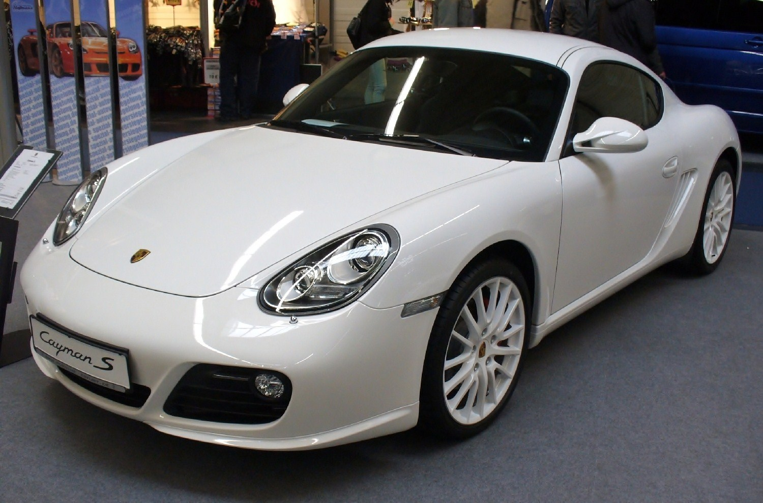 Porsche Cayman S